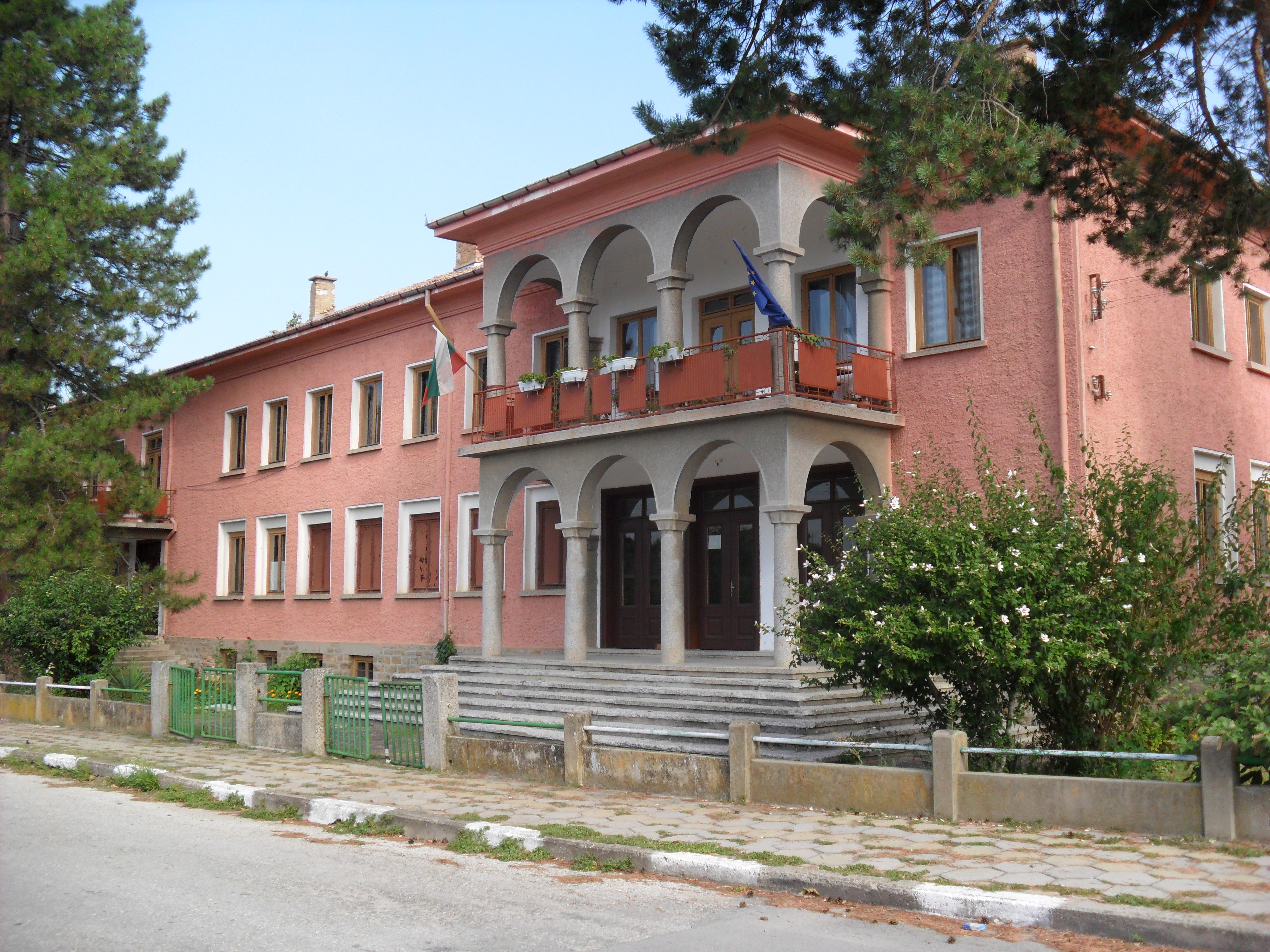 A library in the center of Vishovgrad